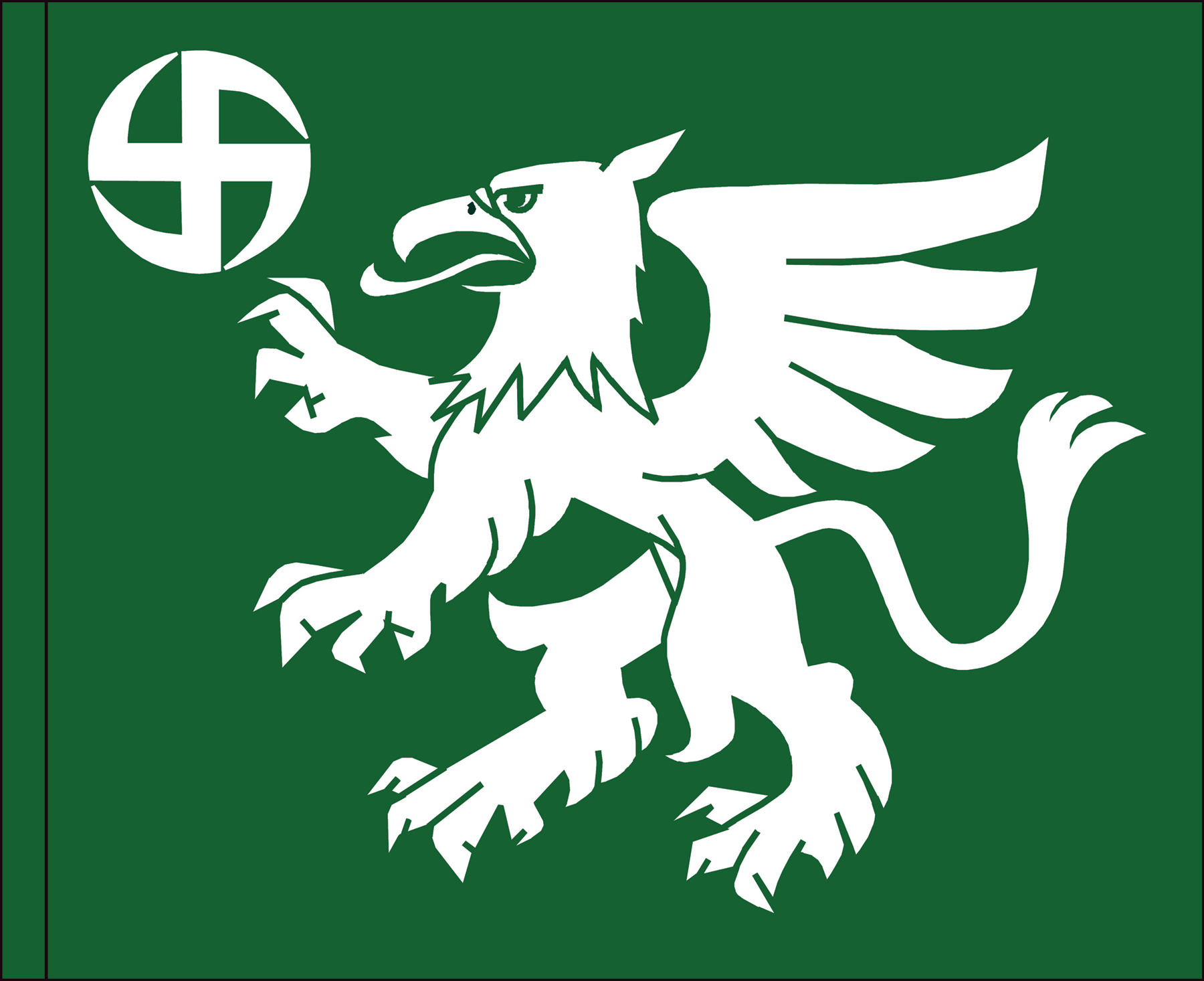 Colour of Utti Jaeger Regiment